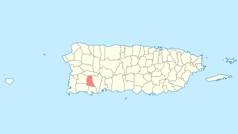 Municipal locator of Puerto Rico